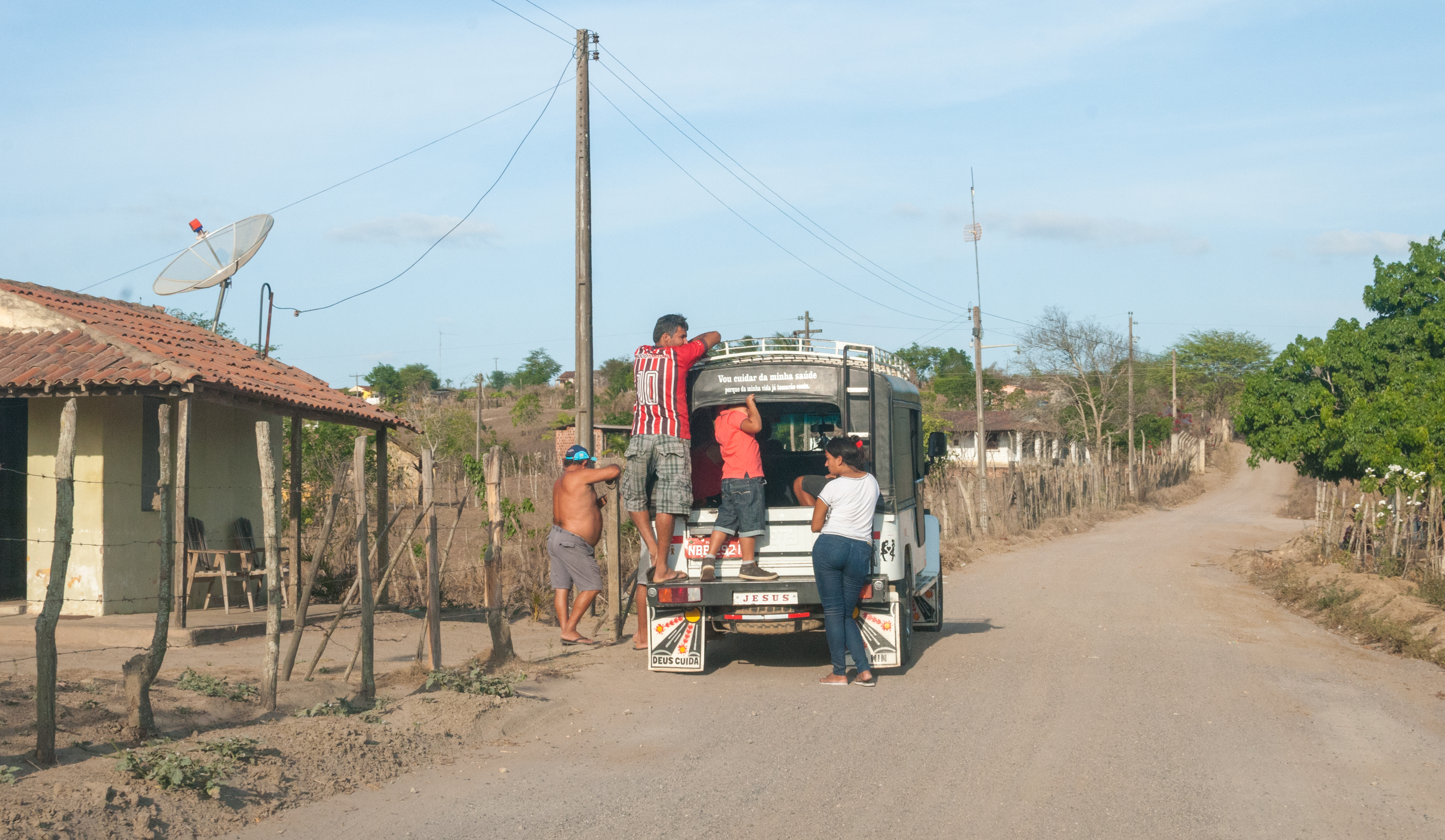 João Alfredo municipality in Pernambuco State, Brazil